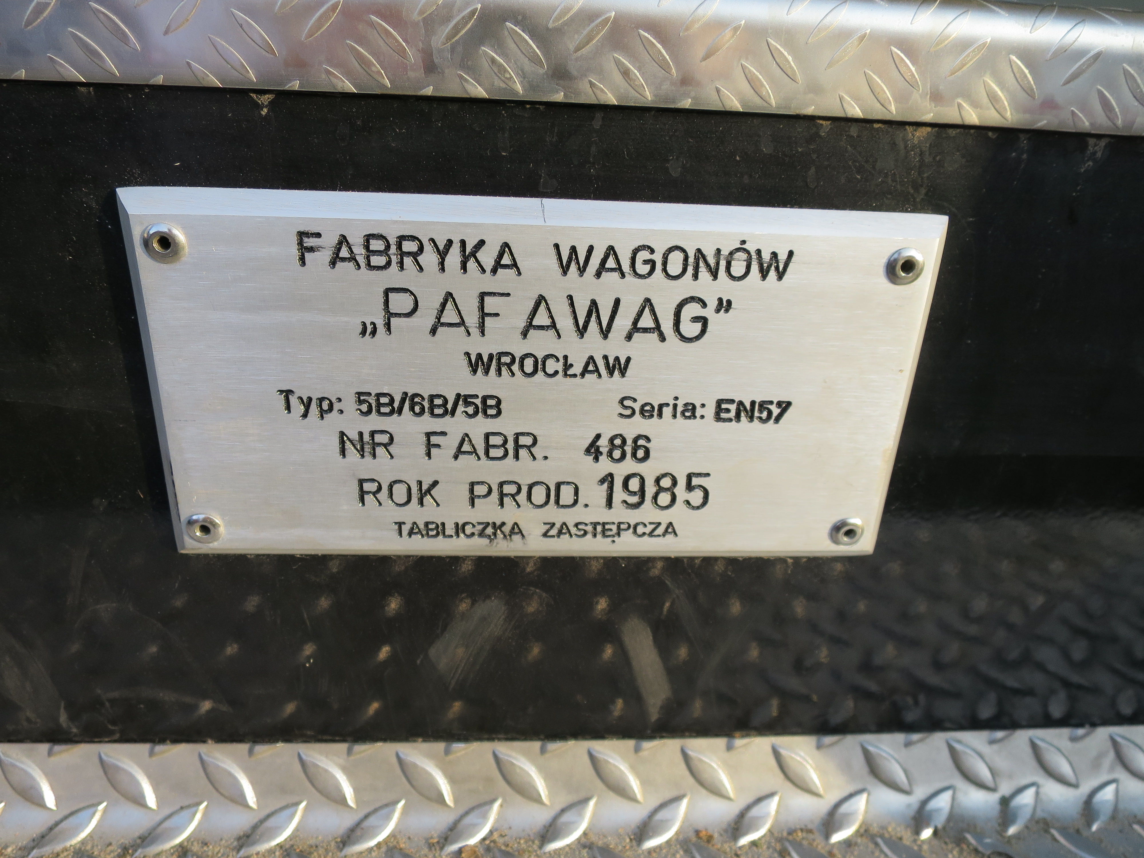 The making of this document was supported by Wikimedia Polska Association, within Wikigrant no. WG 2017-44. EN57FPS